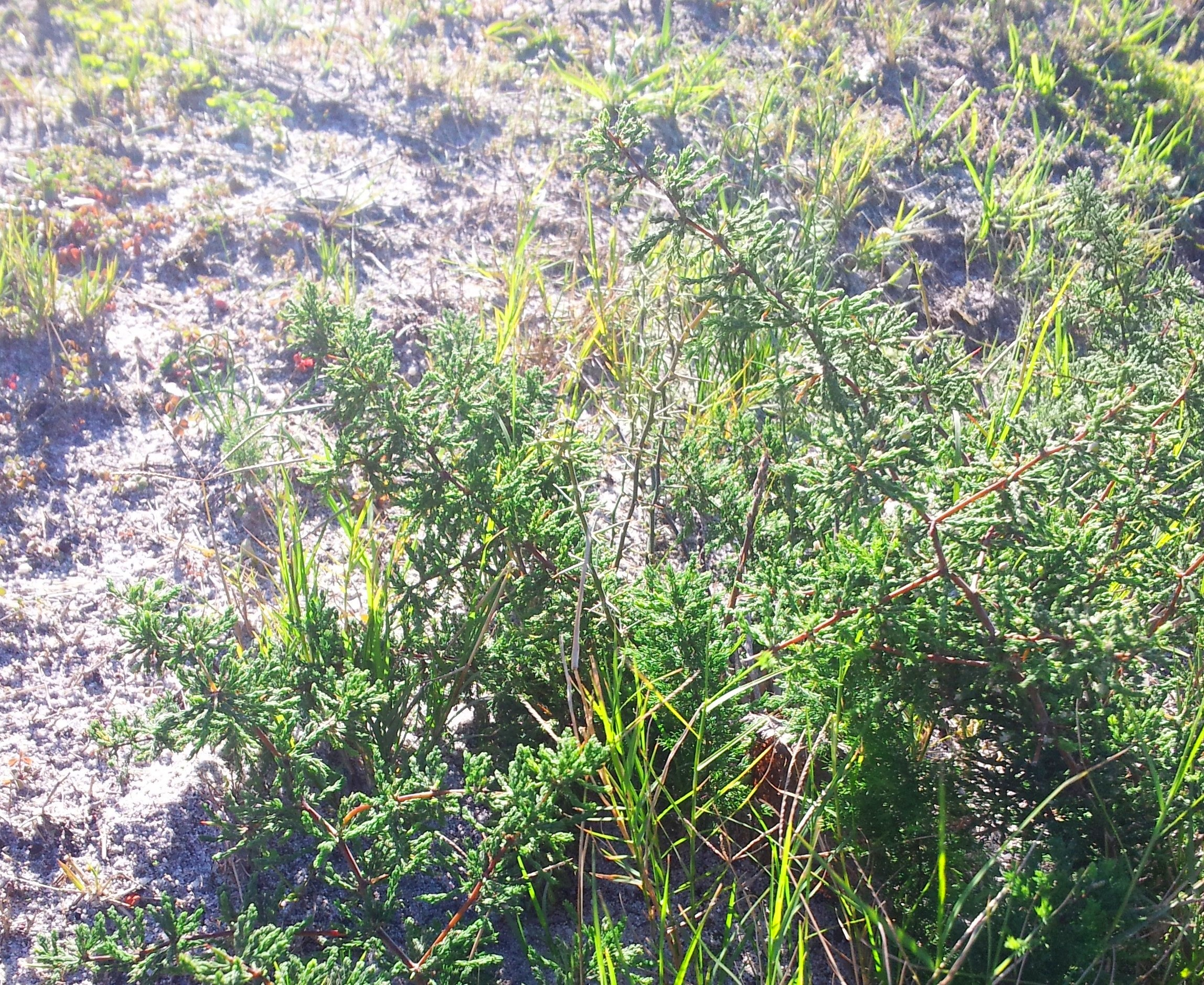 Asparagus capensis var. capensis - Kenwyn Nature Park Cape Town